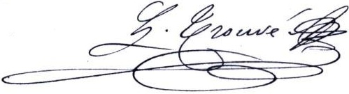 Guastave's signature